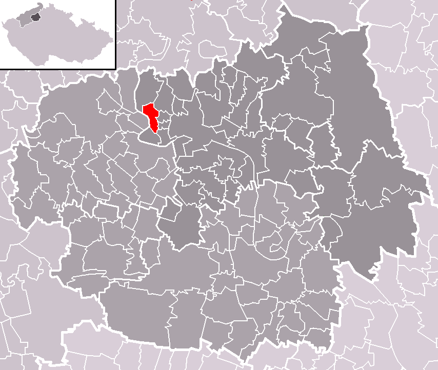 Location of Velké Žernoseky municipality within Litoměřice District and administrative area of Litoměřice as a Municipality with Extended Competence.